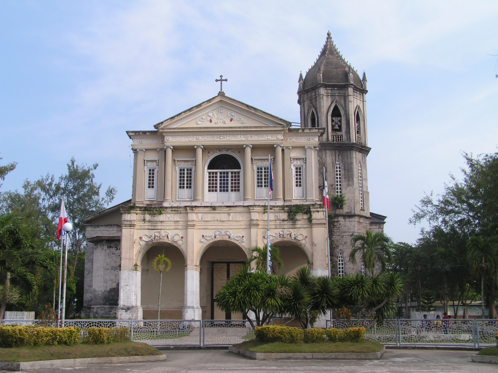 Dauis Church, self-taken